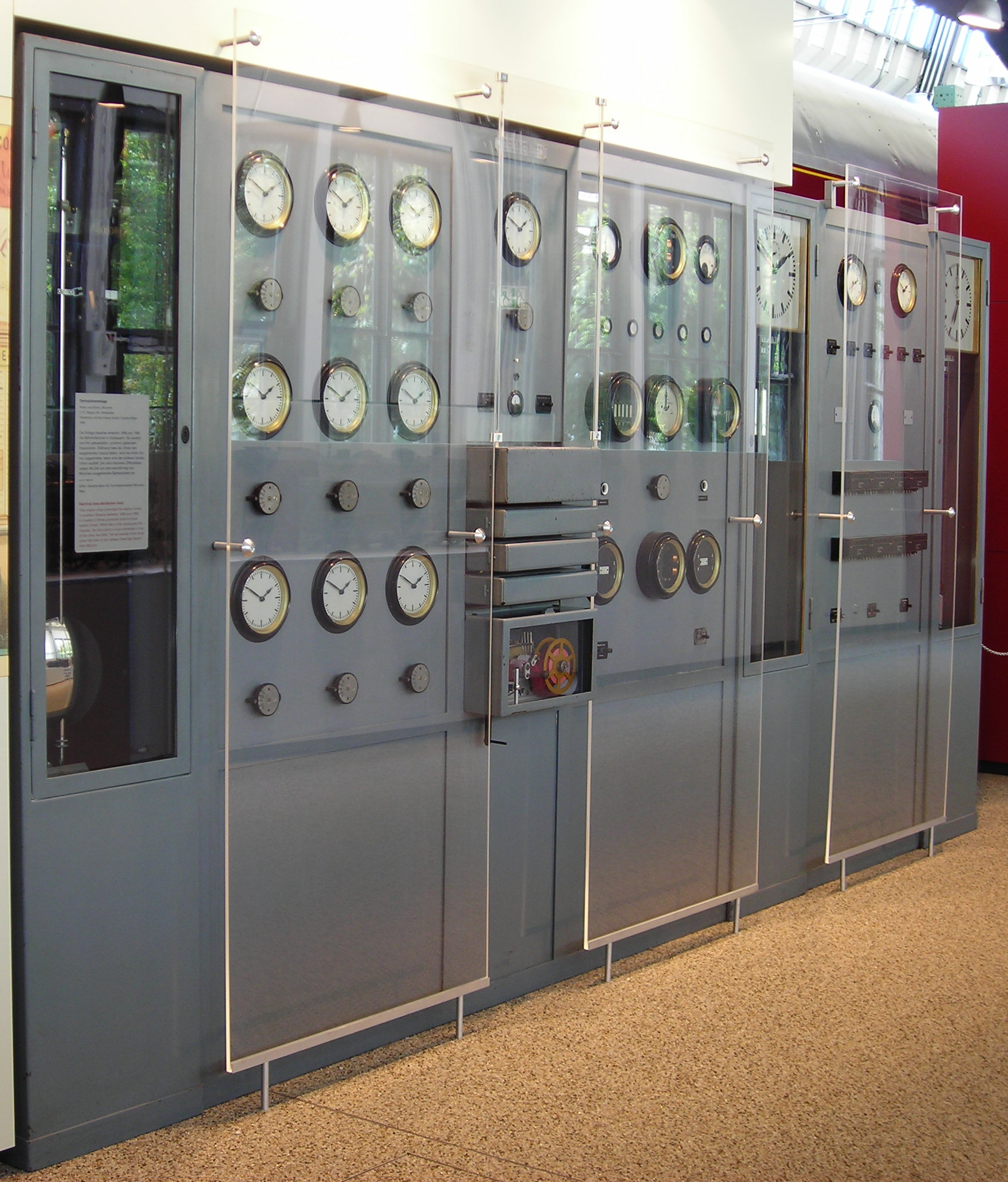 Master clock system South Bavaria - This system, with three synchronized clockworks, controlled all railway station clocks in South Bavaria from 1956 to 1994. The system was built in 1956 by Neher and Sons (Munich), C.Th Wagner AG (Wiesbaden) and Telefonbau und Normalzeit GmbH (Telenorma, Frankfurt/Main). The operator was the Deutsche Bahn telecommunications department Munich West. Exhibit in the German Museum traffic center, room II (Inv. No. 1996-137).